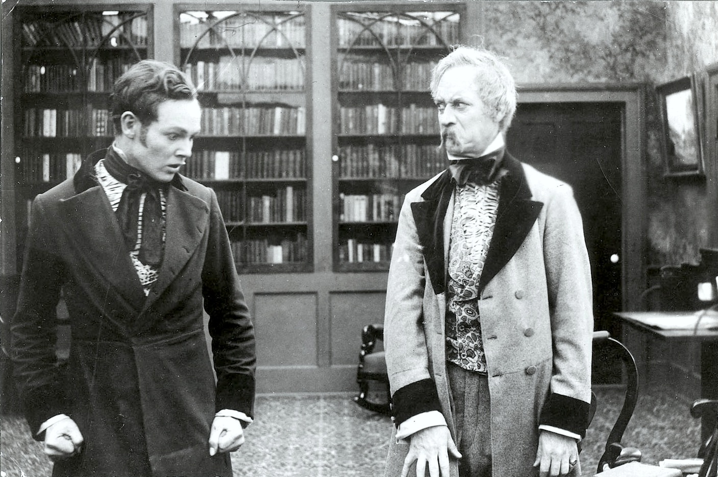 Still from The Coward (1915). Charles Ray (left) and Frank Keenan (right).